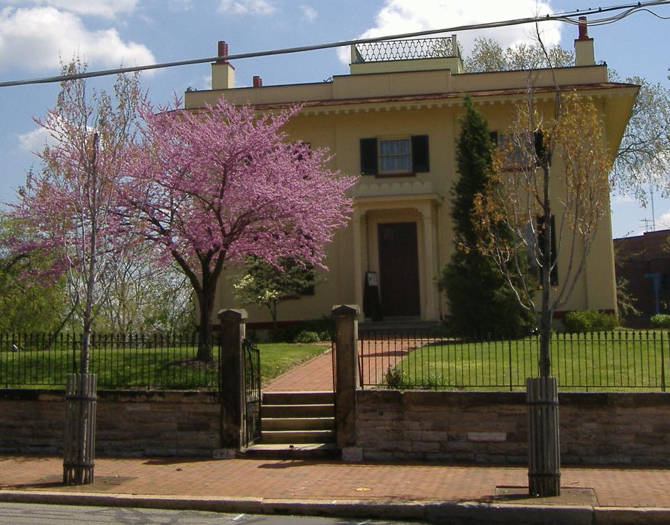 William Howard Taft National Historic Site in Cincinnati, Ohio